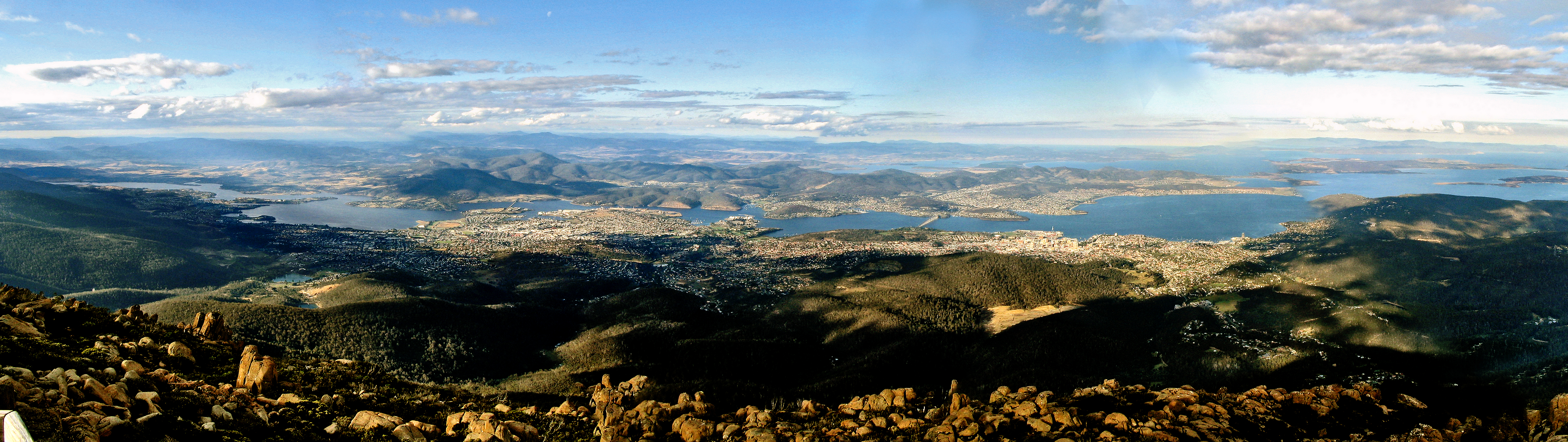 SOURCE INFO Original images captured using a hand-panned Canon PowerShot A75 3.2MP digital compact camera. PROCESS INFO Panorama created by stitching 4 x standard sized 6x4 images using Microsoft Image Composite Editor (ICE). Post-edited using Adobe Photoshop Creative Suite 8.0